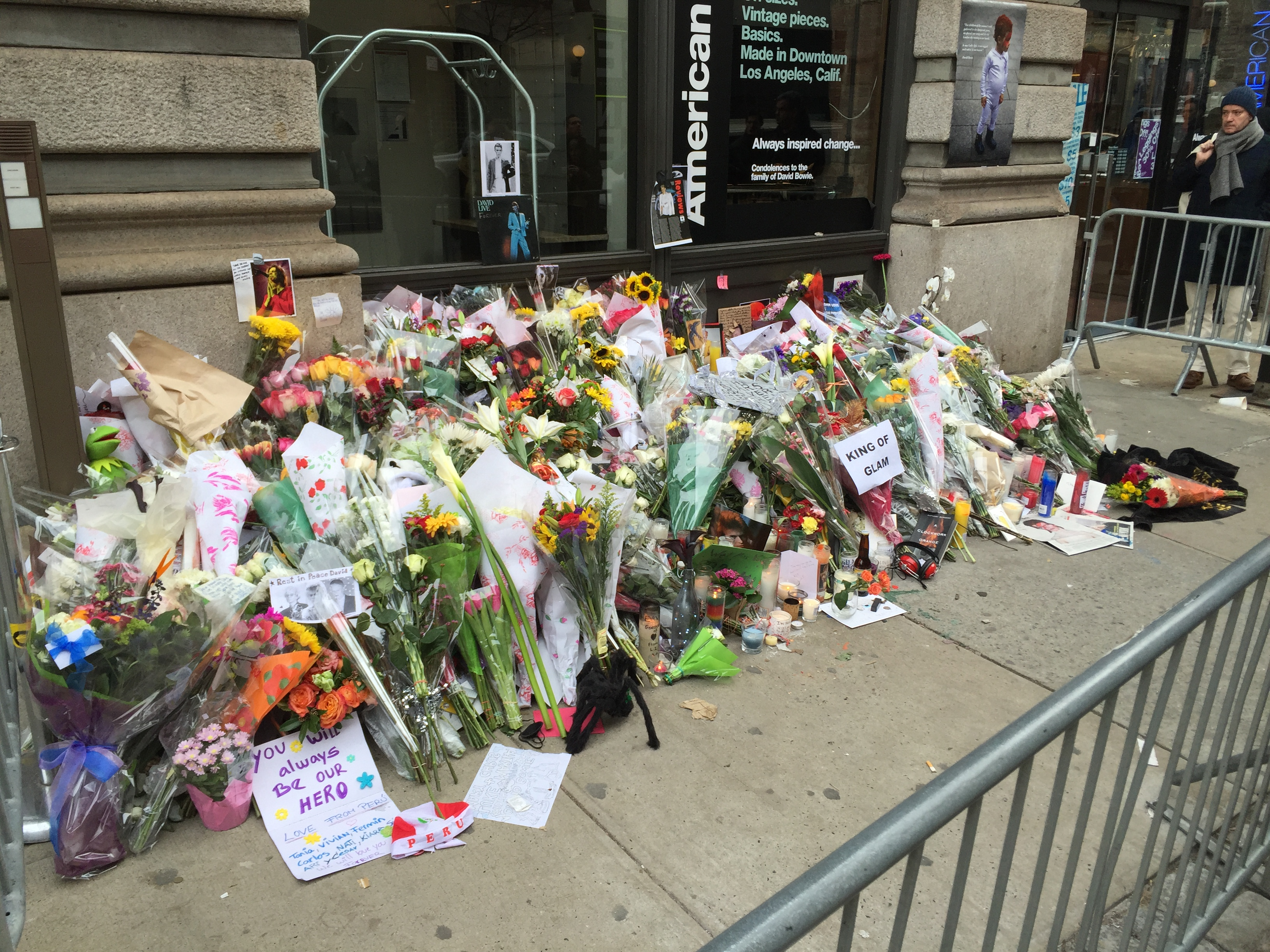 A memorial outside of Bowie's apartment in New York on Lafayette Street the day after it was announced he died.